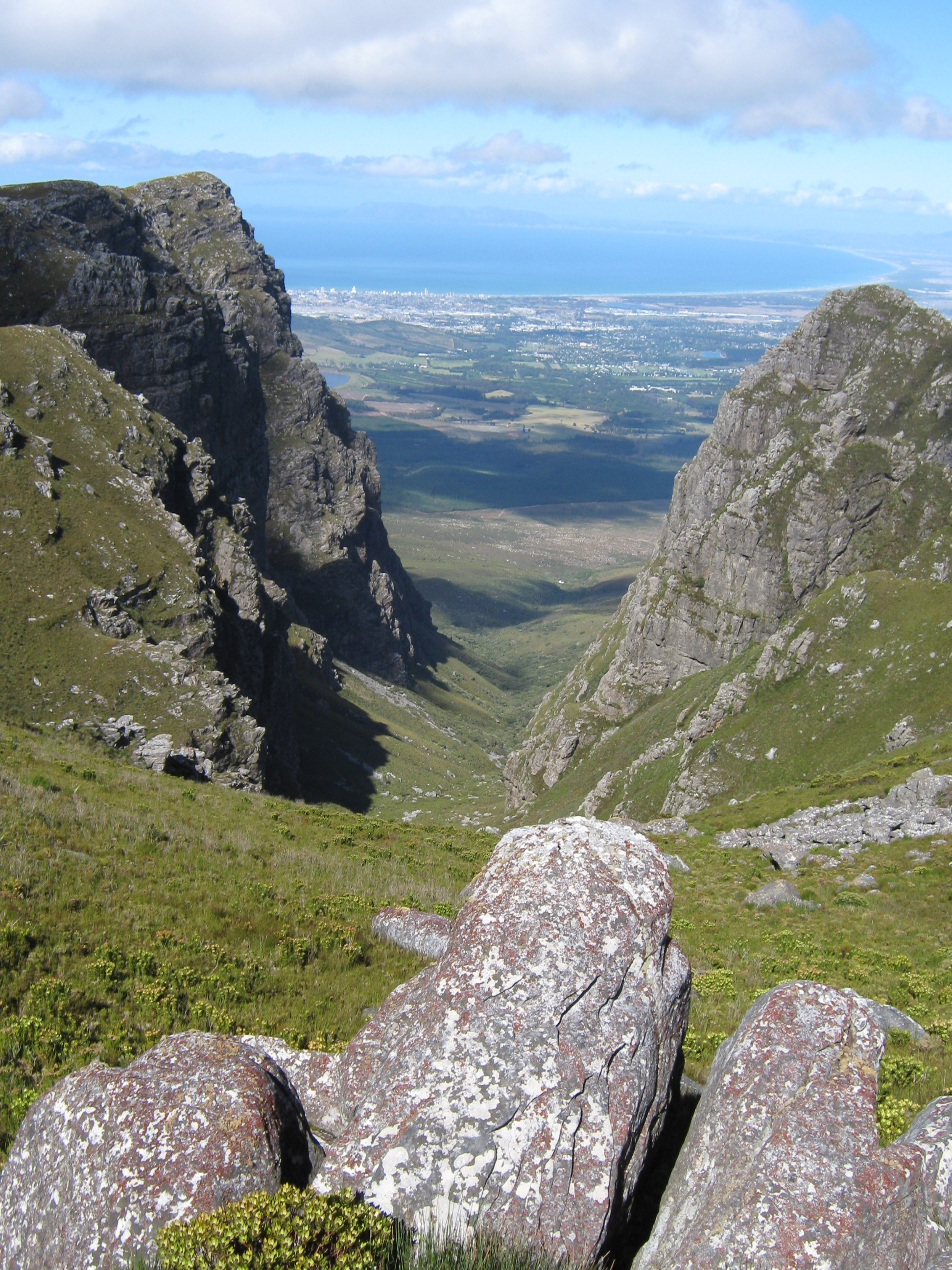 Hottentots HOlland Nature Reserve. Western Cape. SA.